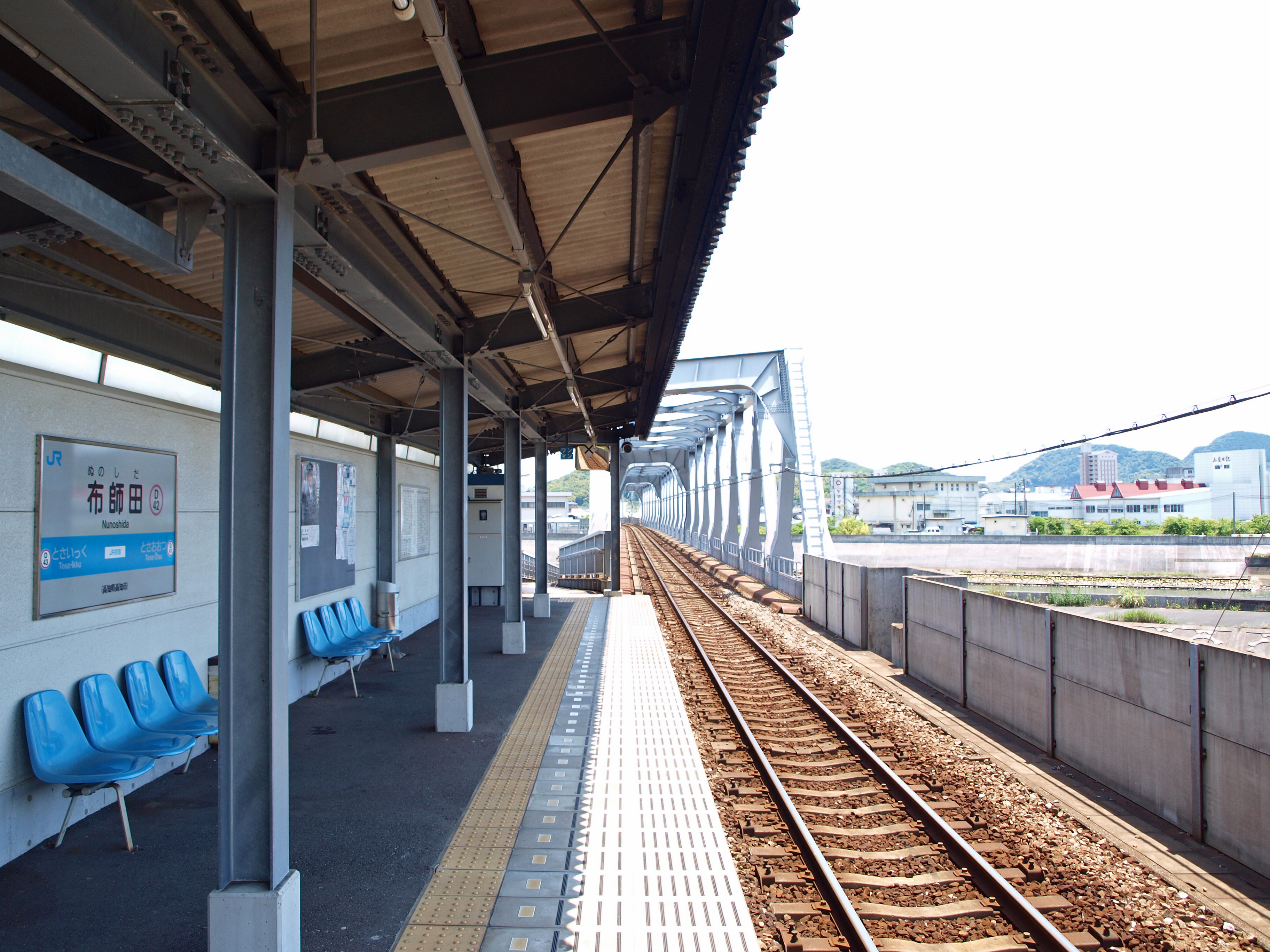 Nunoshida station, Dosan-line, JR Shikoku, Japan